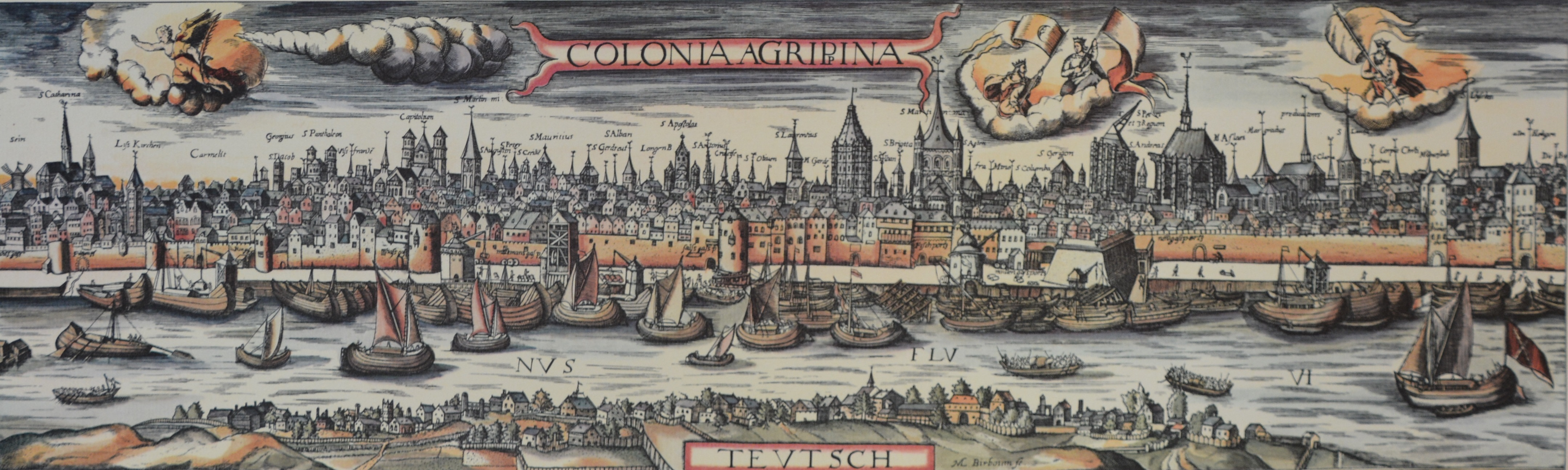 Köln 1612 by M.L. Birbaum